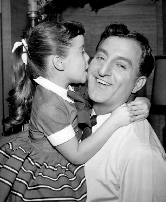 Publicity photo of Danny Thomas and Angela Cartwright from Make Room for Daddy. Note: The file was formerly a non-free file. New information proves it to be a free use PD pre-1978 image.